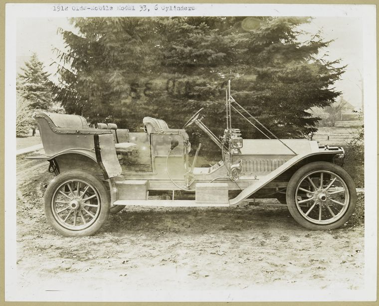 Digital ID: 482208. 1912 Source: Photographs of General Motors and Chrysler car and truck models, 1902 - 1938. / General Motors Company. Oldsmobiles 1897 -1938. Photographs - Specifications. ( Repository: The New York Public Library. Science, Industry and Business Library. General Collection Division. See more information about and others at Persistent URL: Rights Info: No known copyright restrictions; may be subject to third party rights (for more information